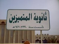 Front gate welcome sign